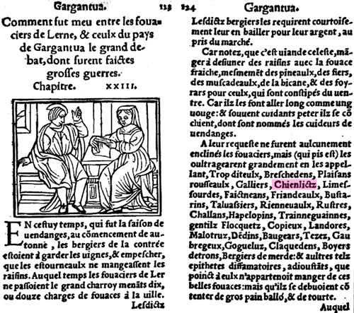 First apparition of french parole "chienlit" (chienlictz) in book of François Rabelais "Gargantua", chapter 23.